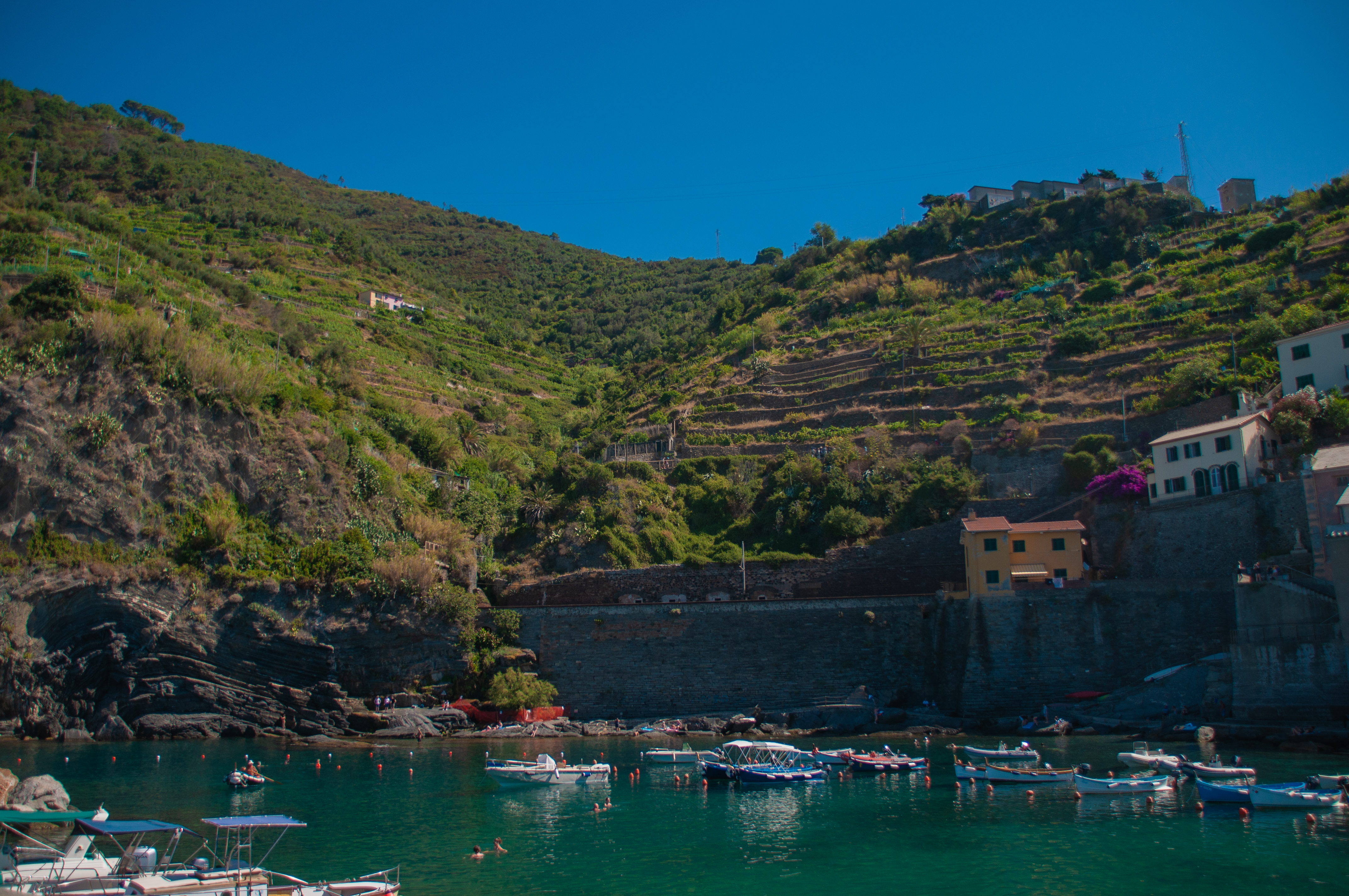 Small ships and grape plantation at Vernazza, Cinque Terre, Italy